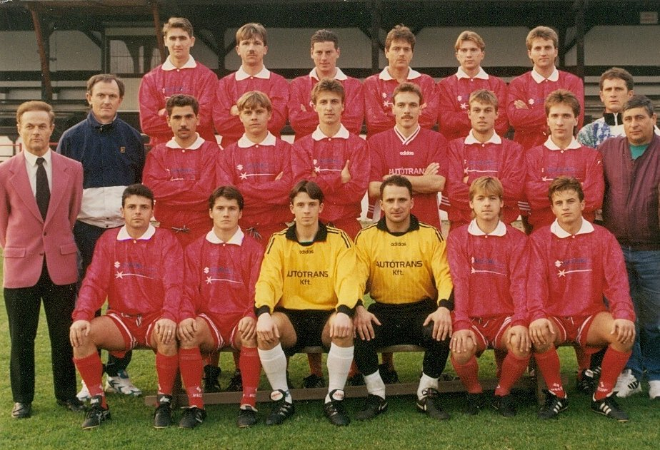 The team of SE Dorog in fall of 1995